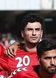 Mustafa Hadid before match with Japan, 2018 FIFA World Cup qualification, Azadi Stadium, Tehran